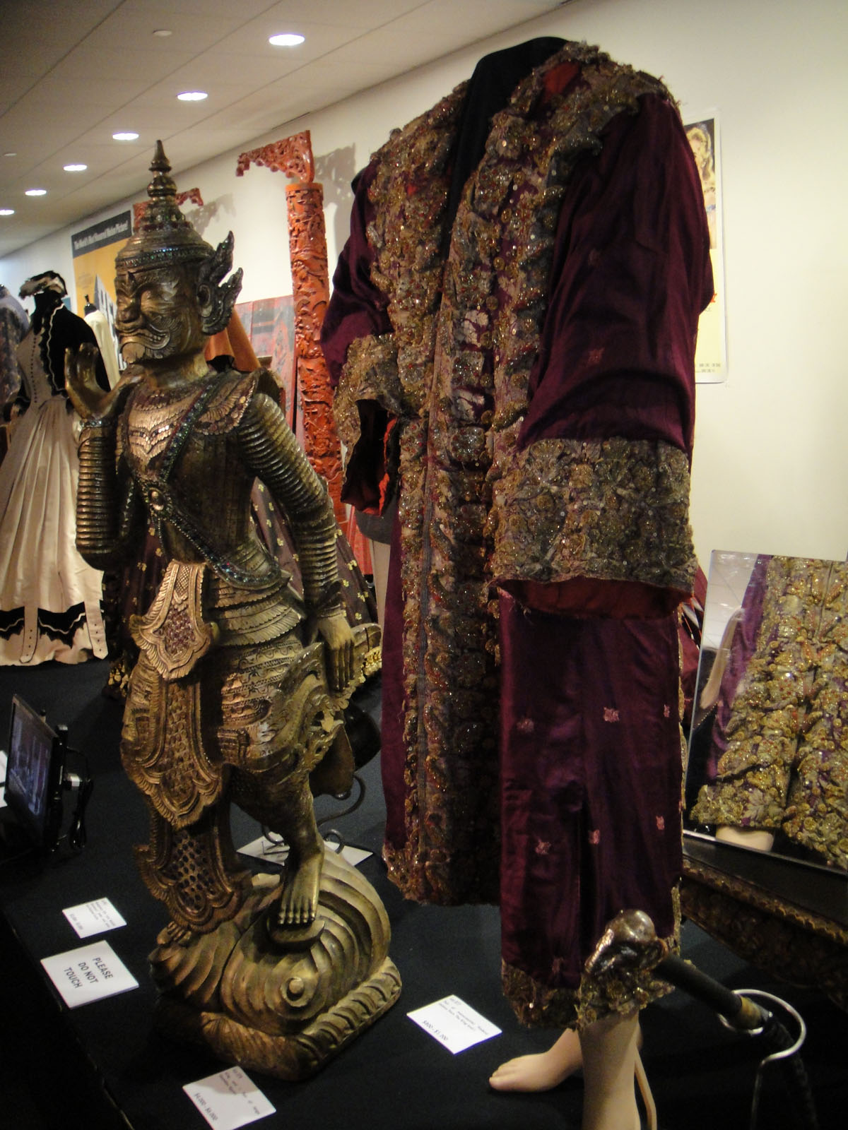 at the Debbie Reynolds Auction Breaks Up Historic Hollywood Collection (The Paley Center for Media in Beverly Hills, Los Angeles, CA, USA).